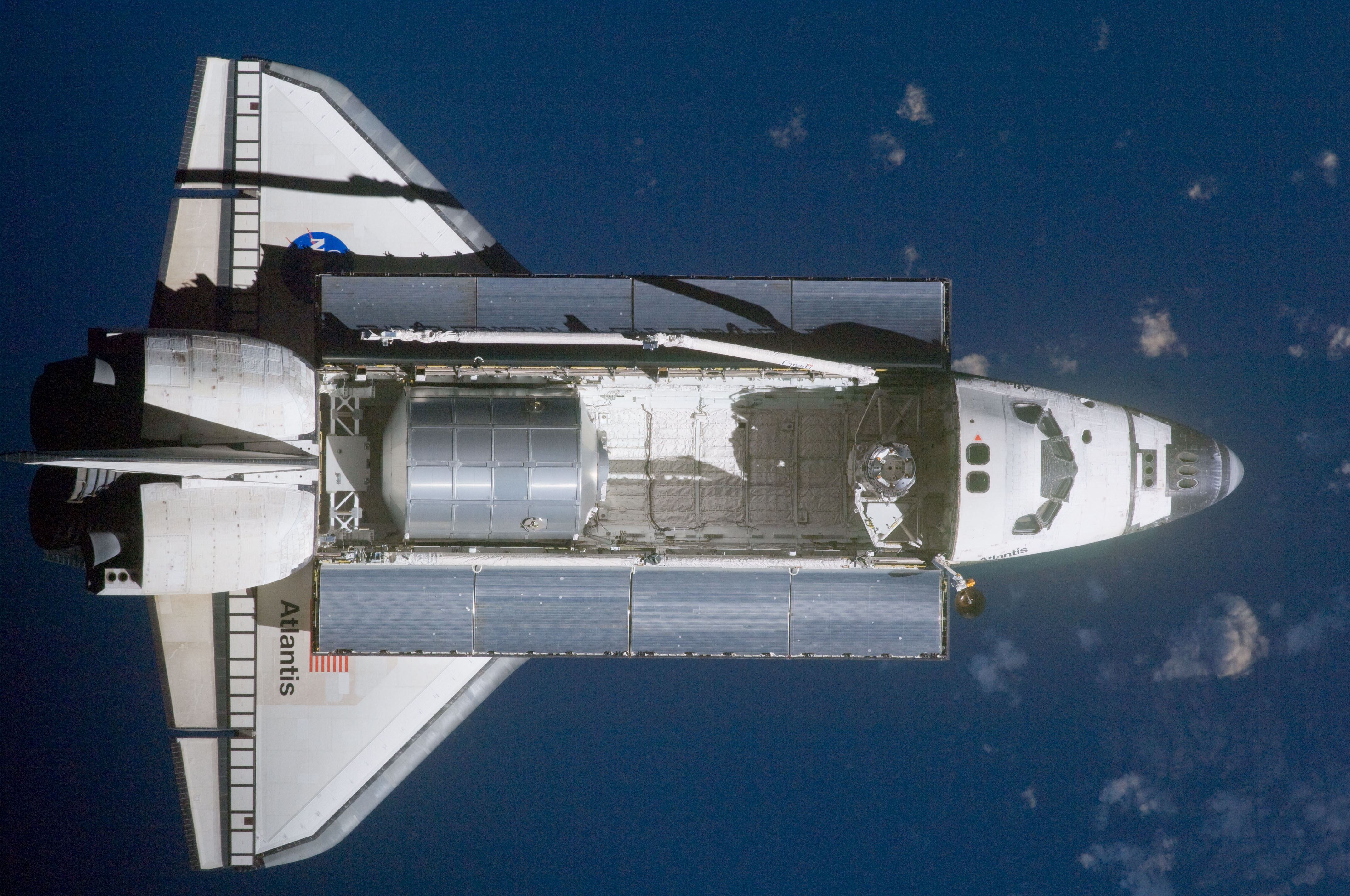 A nadir view of the space shuttle Atlantis and its payload was provided by one of a series of images showing various parts of the shuttle in Earth orbit. Seen at the rear of the cargo bay is the Raffaello multi-purpose logistics module, packed with supplies and spare parts for the International Space Station. The series was photographed by one of three crewmembers -- half the station crew -- who were equipped with still cameras on the orbiting outpost as the shuttle "posed" for photos and visual surveys and performed a back-flip for the rendezvous pitch maneuver (RPM). A 400 millimeter lens was used to capture this particular series of images.